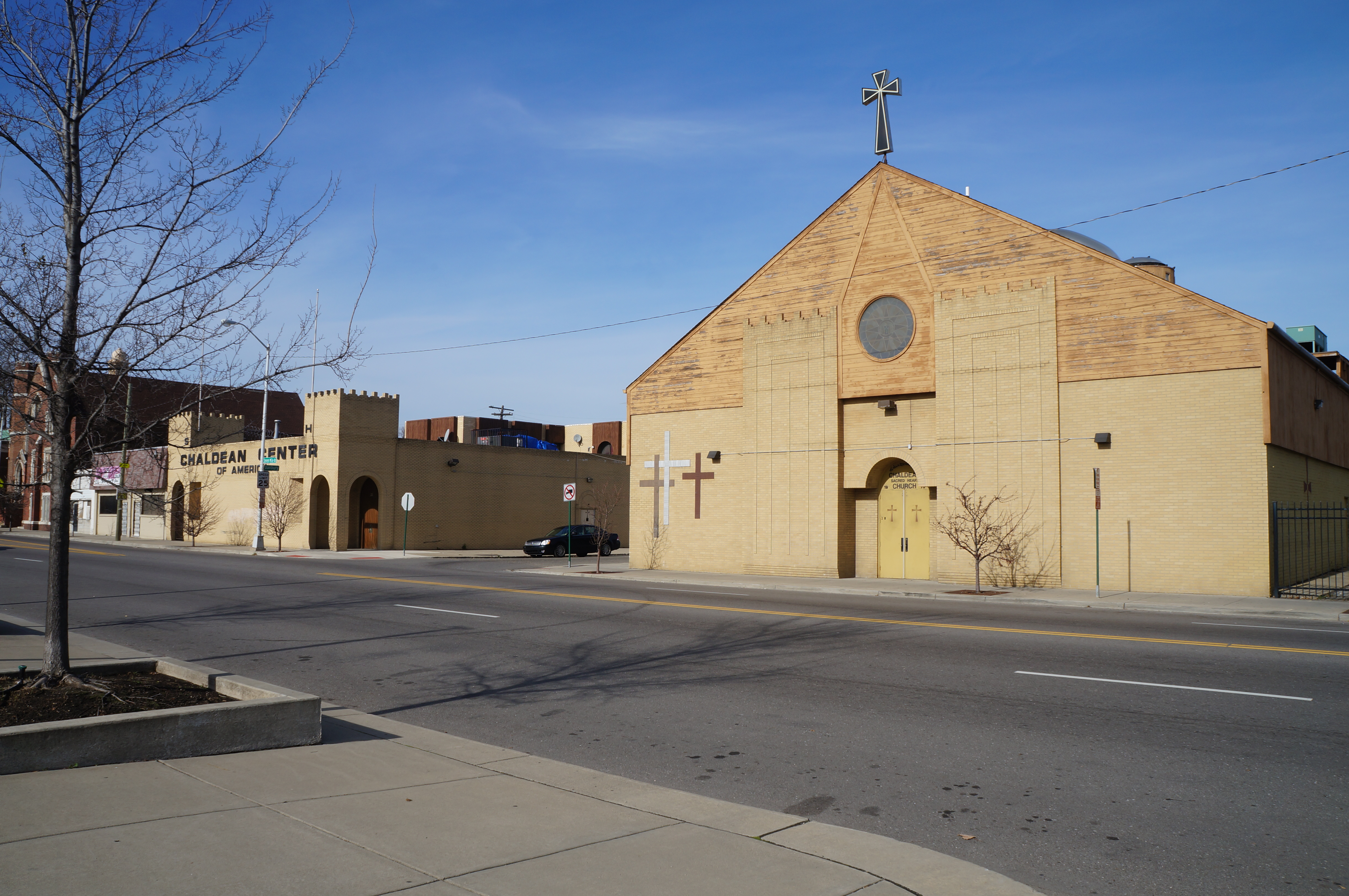 Sacred Heart Chaldean Catholic Church & Chaldean Center of America in Detroit, Michigan